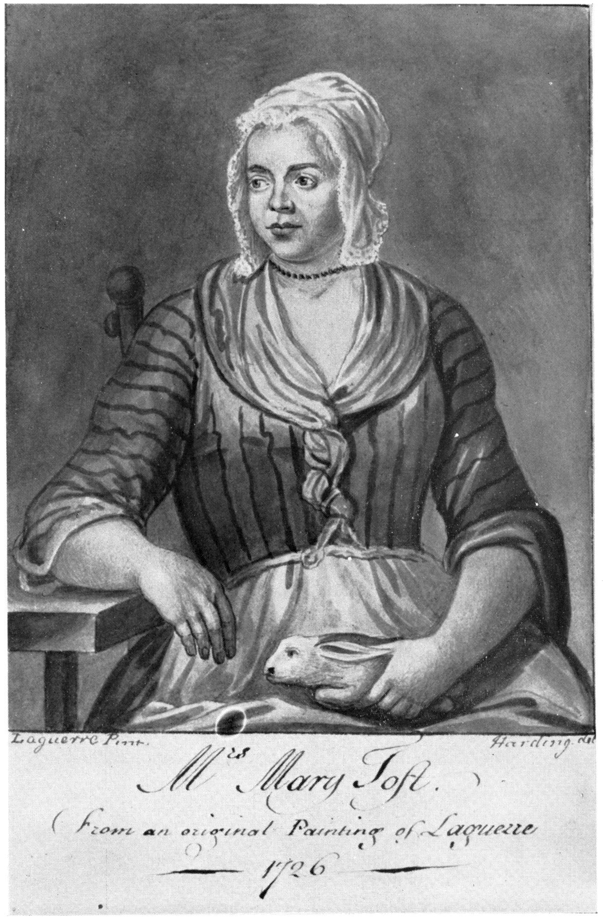 A copy of a portrait of Mary Toft